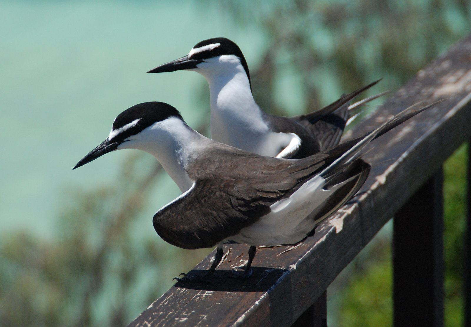 Onychoprion anaethetus, Bridled Tern, New Caledonia. Ilot Signal, off Nouméa, New Caledonia.